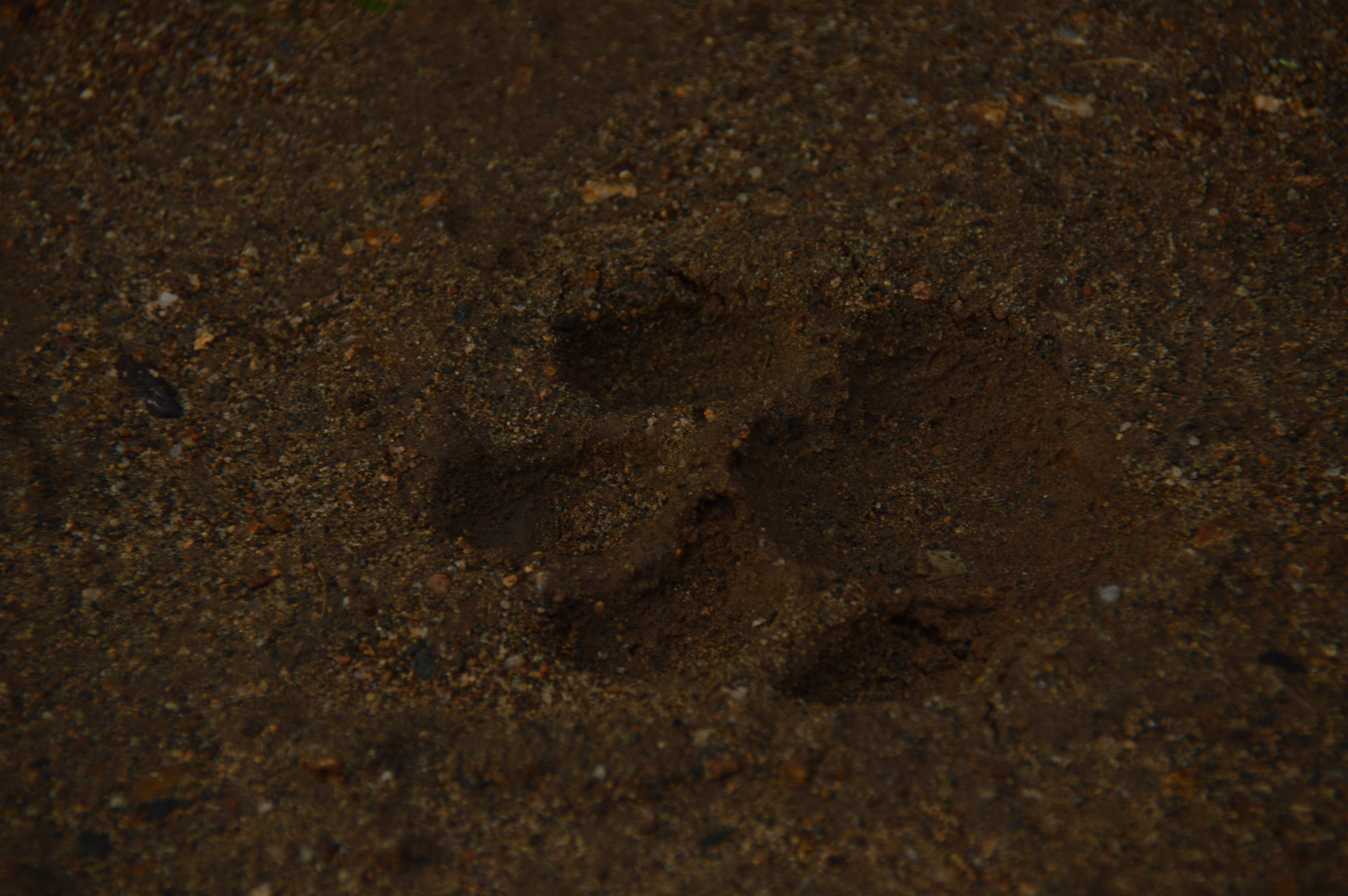 A Female Tiger(padmas) Pugmark